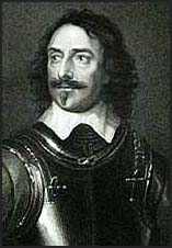 Robert Devereux, 3rd Earl of Essex